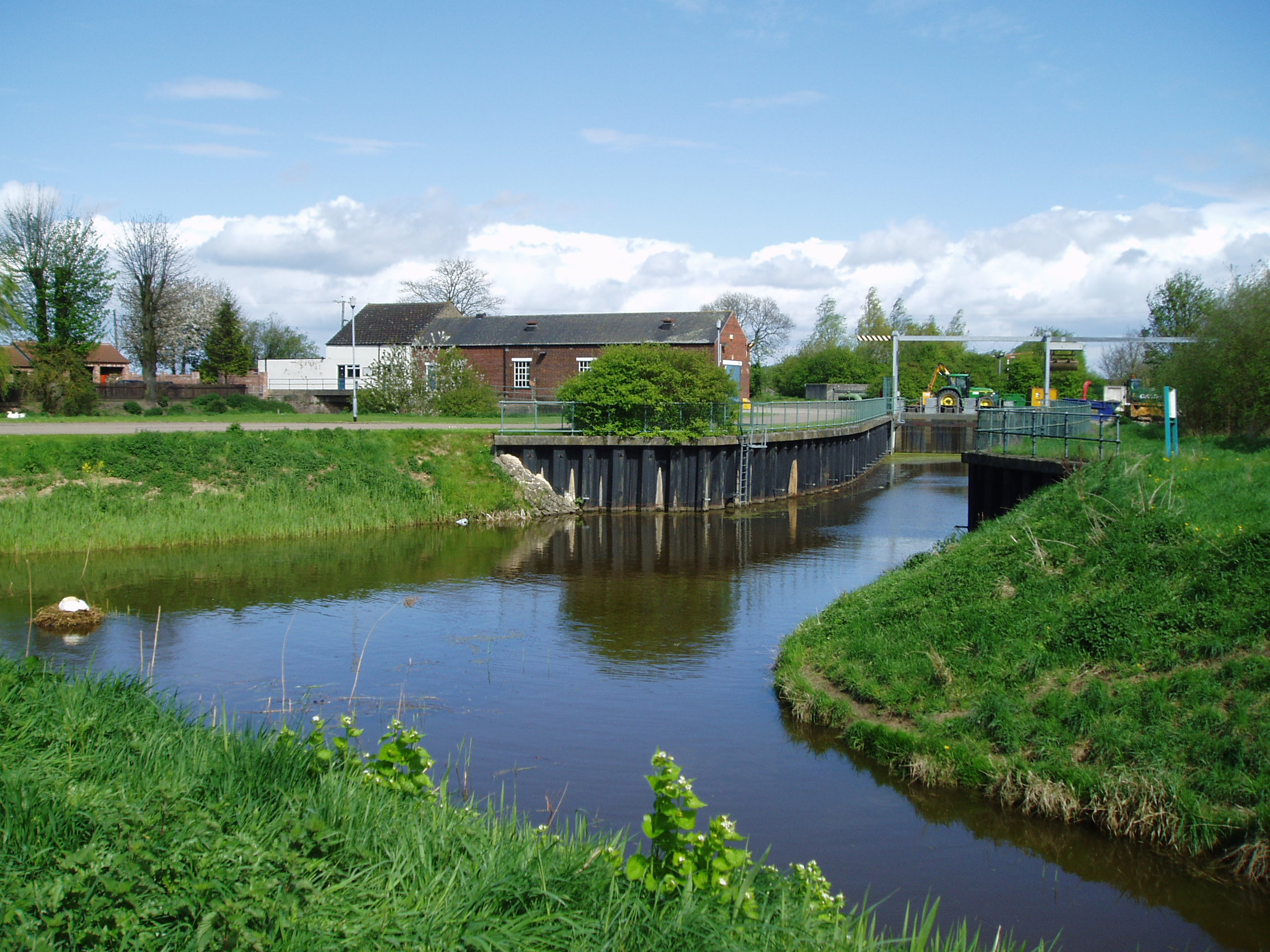 The pumping station at Bull Hassocks, Hatfield Chase, where the South Engine Drain starts